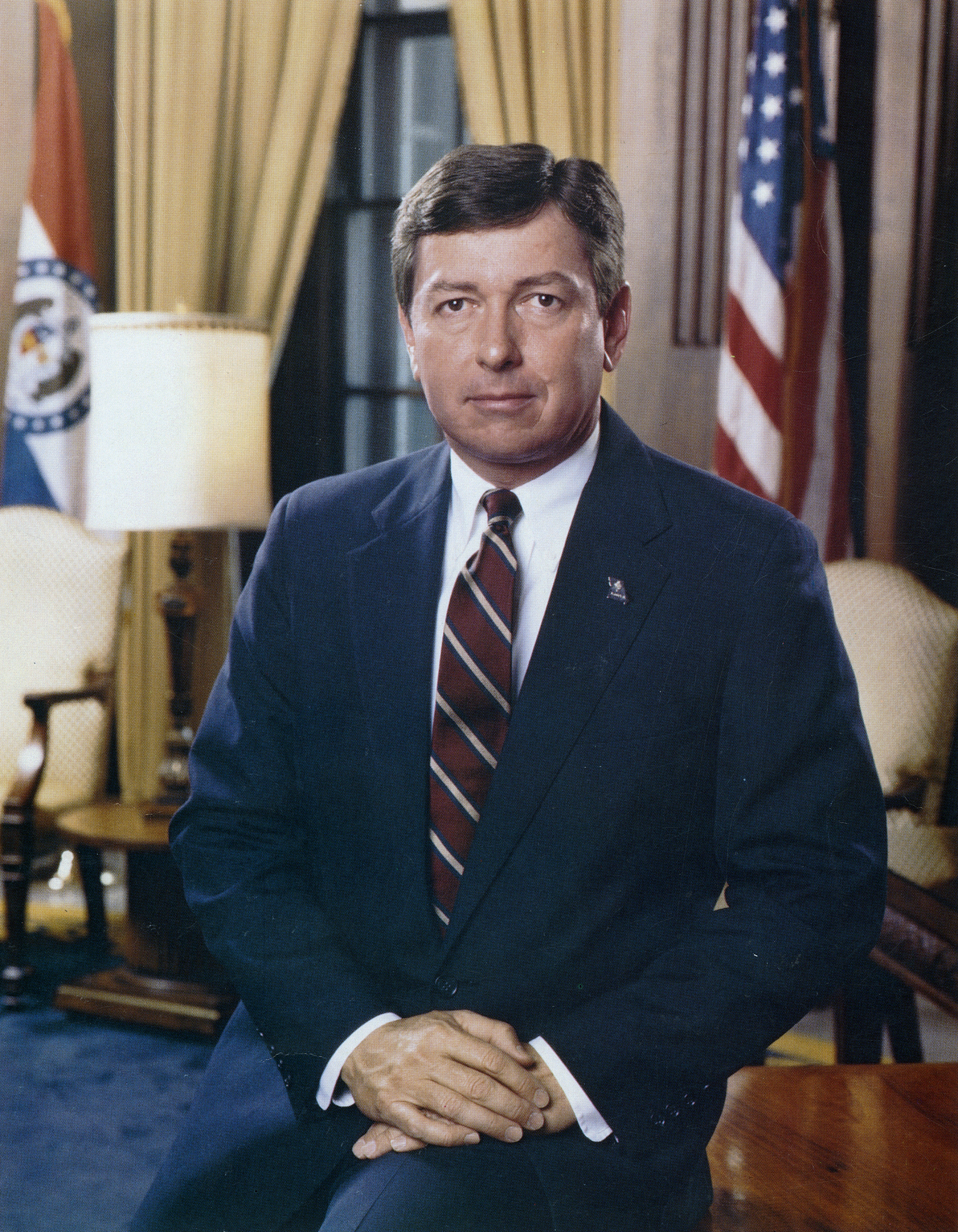 John Ashcroft, Missouri politician